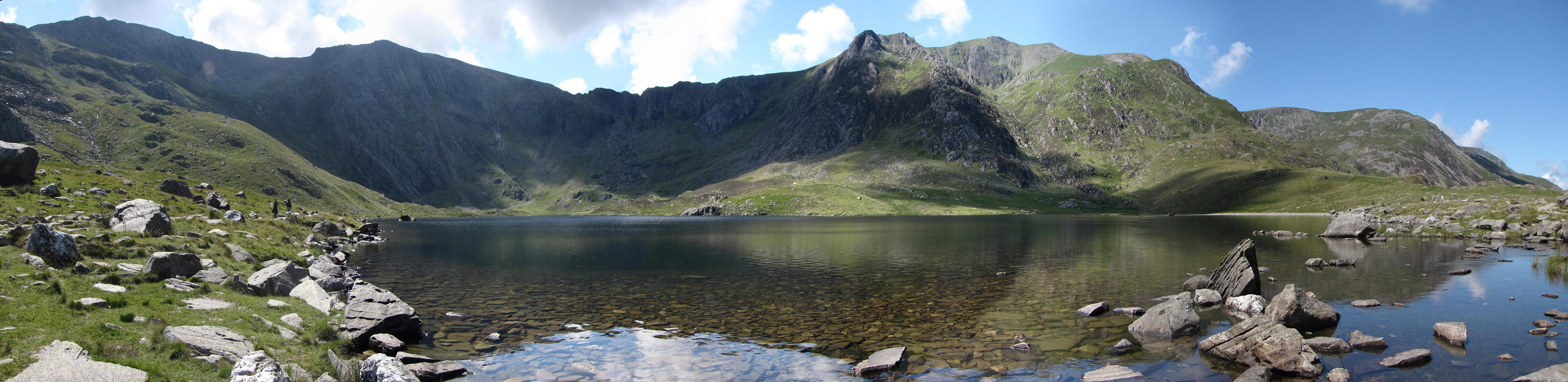 Corrie lake Llyn Idwal, Cwm Idwal